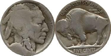 Buffalo nickel obverse and reverse Nickel design is in the public domain . Photo by Einar Einarsson Kvaran